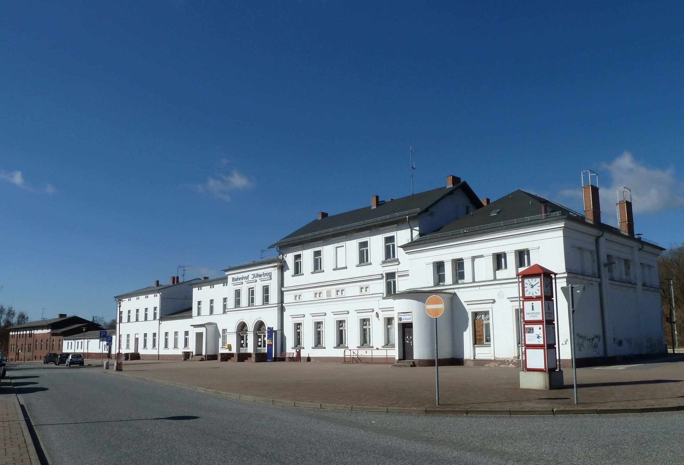 Jüterbog railway station, station building, cultural heritage.